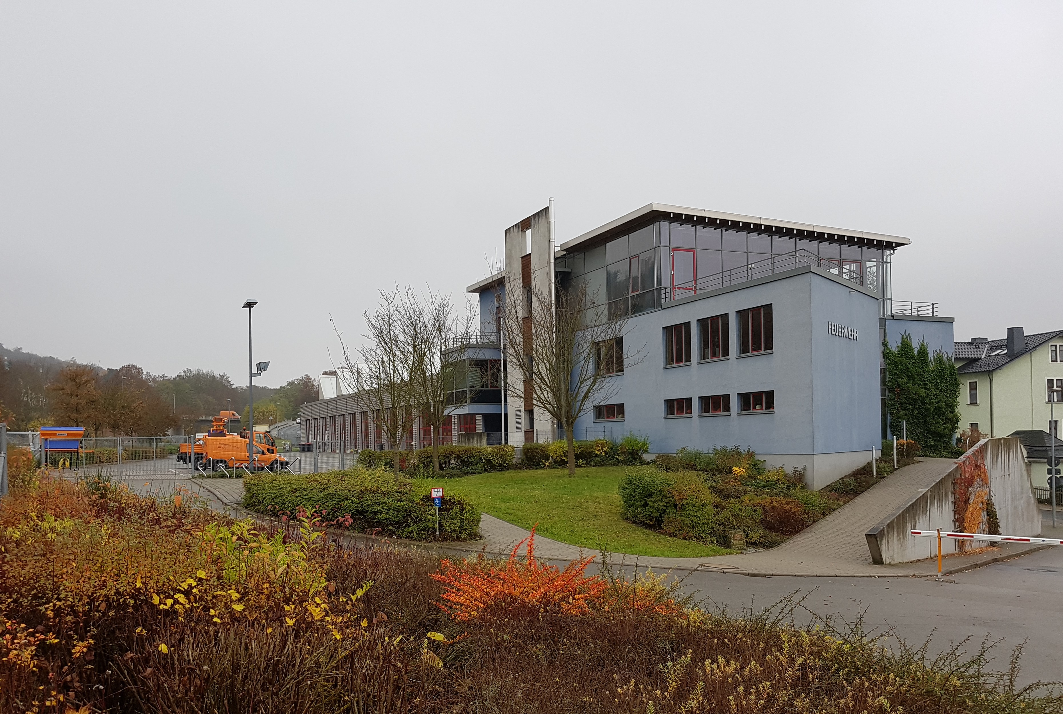 Fire Station of the Fire Department Meiningen